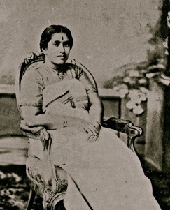 Maharani Pooradam thirunal Sethu Lakshmi Bayi of Travancore after her installation ceremony (1924)